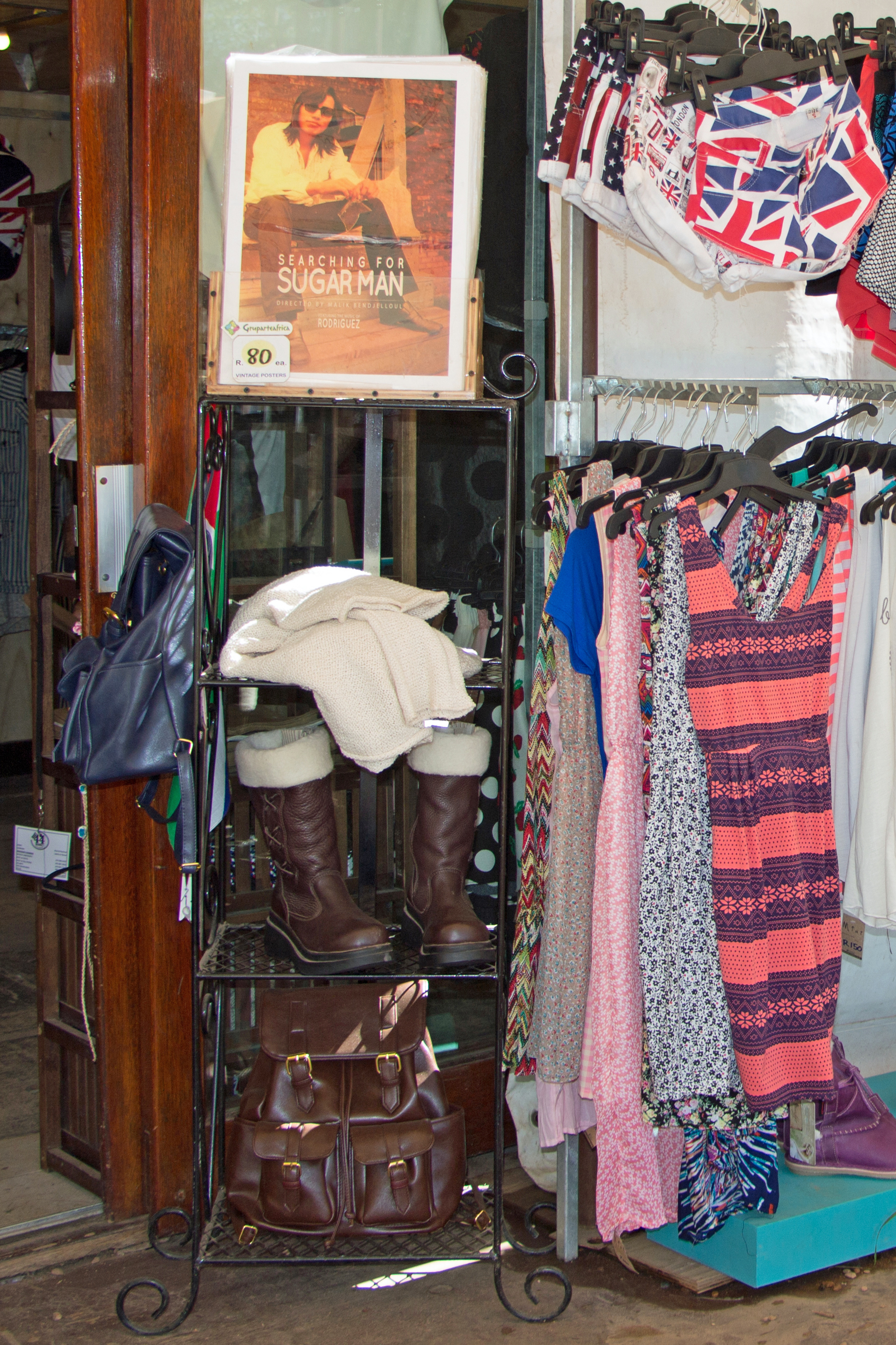 Mint Clothing stall at Root44 Market, Stellenbosch, South Africa